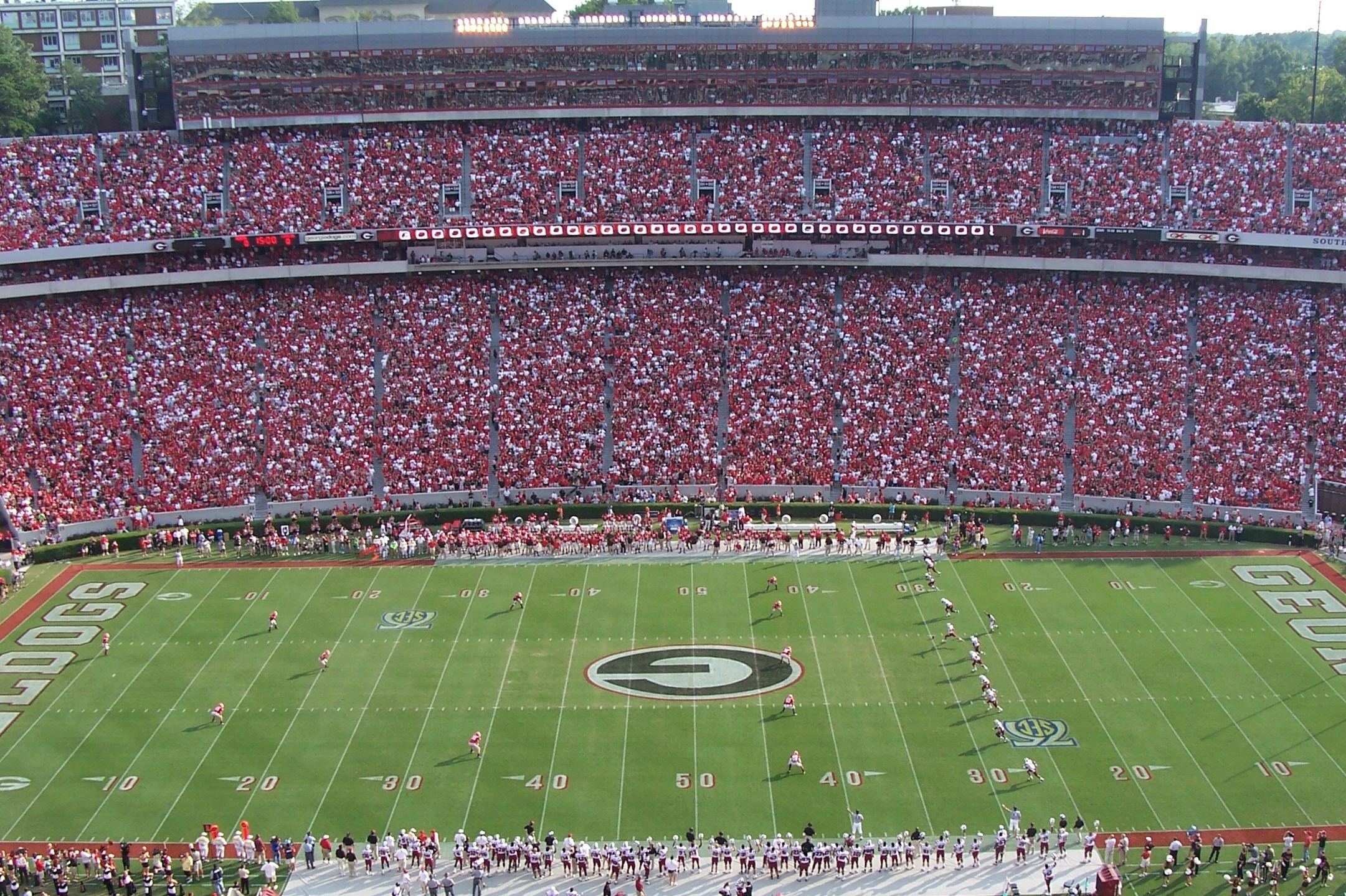 Picture taken at kickoff of the South Carolina-Georgia game on September 8, 2007.